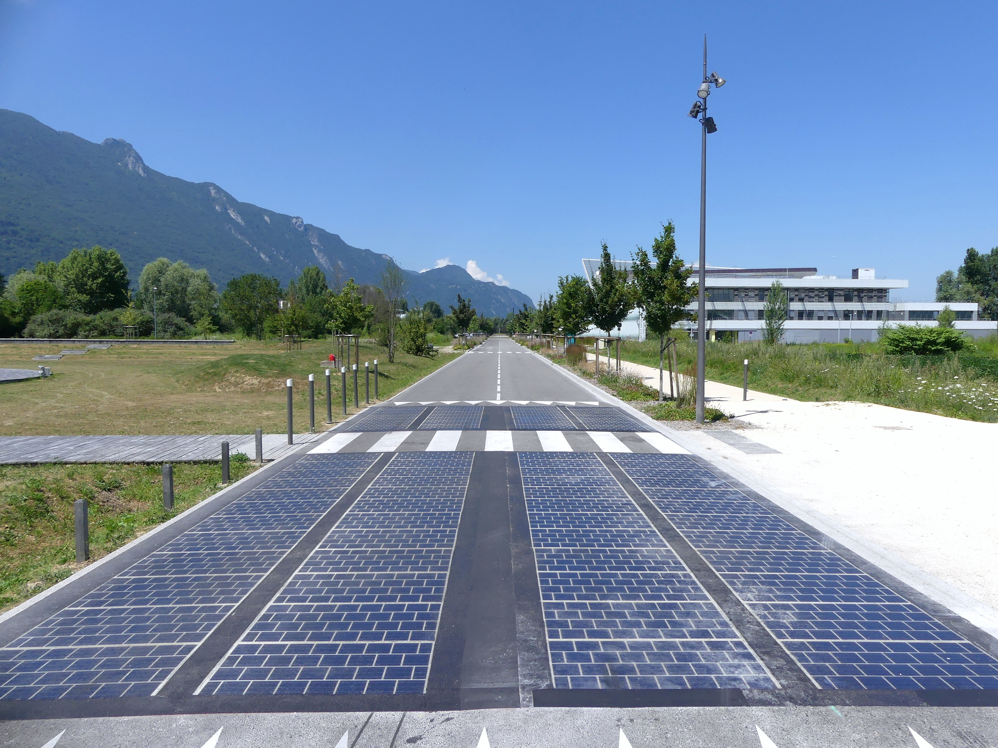 Sight of the a tiny portion of a solar powered road in Savoie Technolac science and technology park, the first installed in Savoie, France.